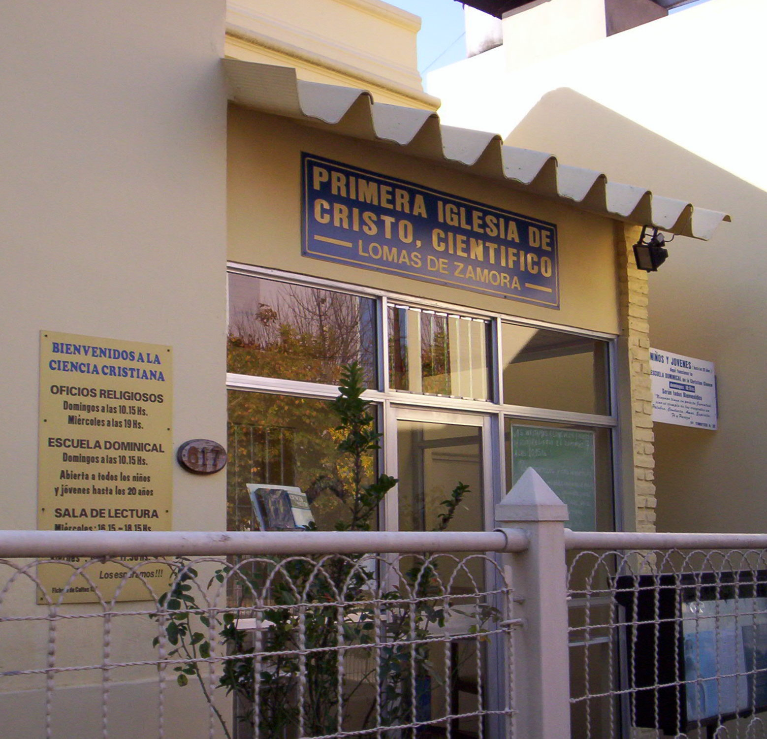 "Iglesia de Cristo, Científico" en Lomas de Zamora